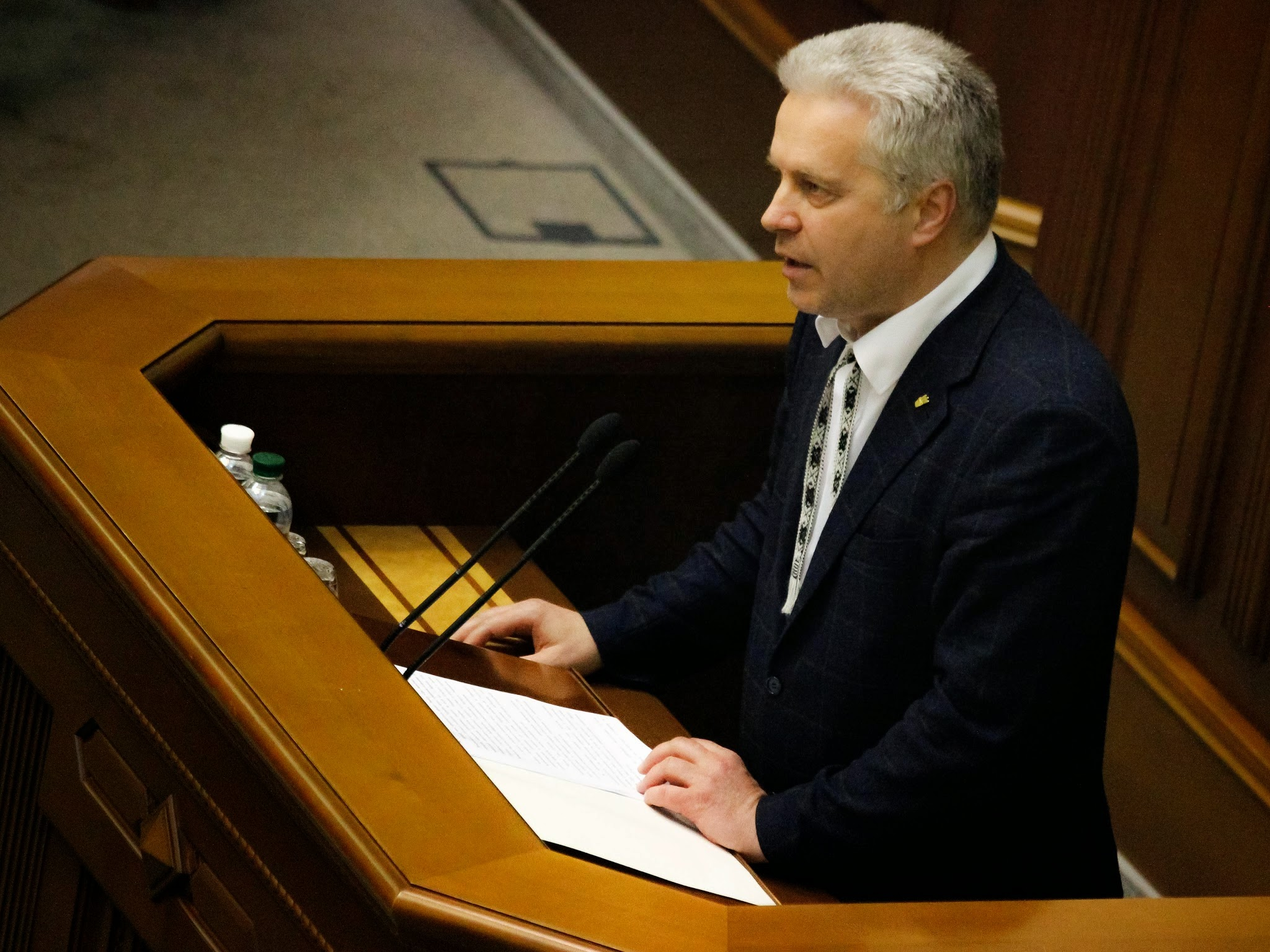 Oleksandr Myrnyi, Ukrainian politician, member of the Ukrainian Verkhovna Rada